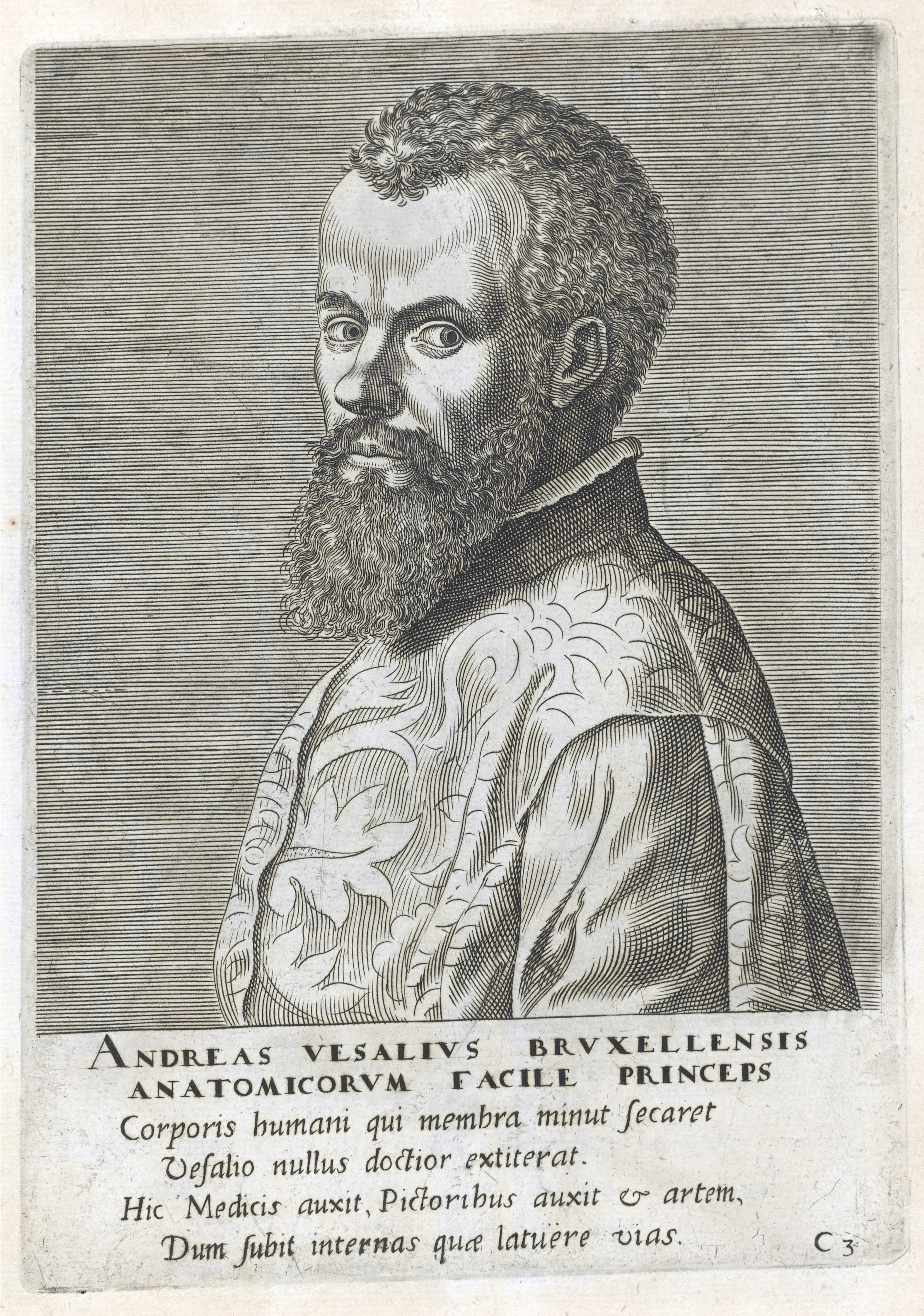 Portrait of Andreas Vesalius Bruxellensis Anatomicorum Facile Princeps Rare Books Keywords: Andreas Vesalius